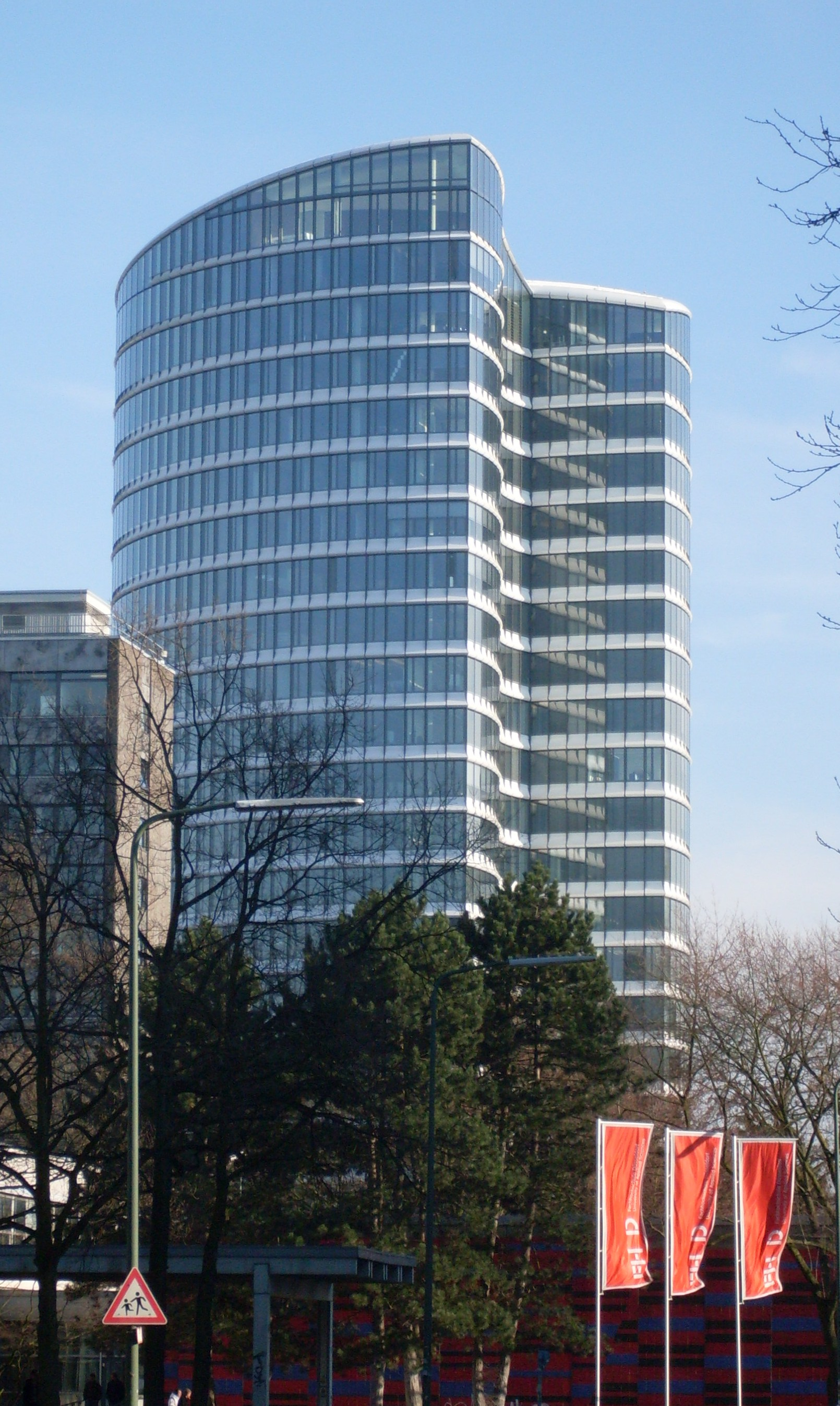 Sky Office Tower, Duesseldorf. Architects: Ingenhofen Architects